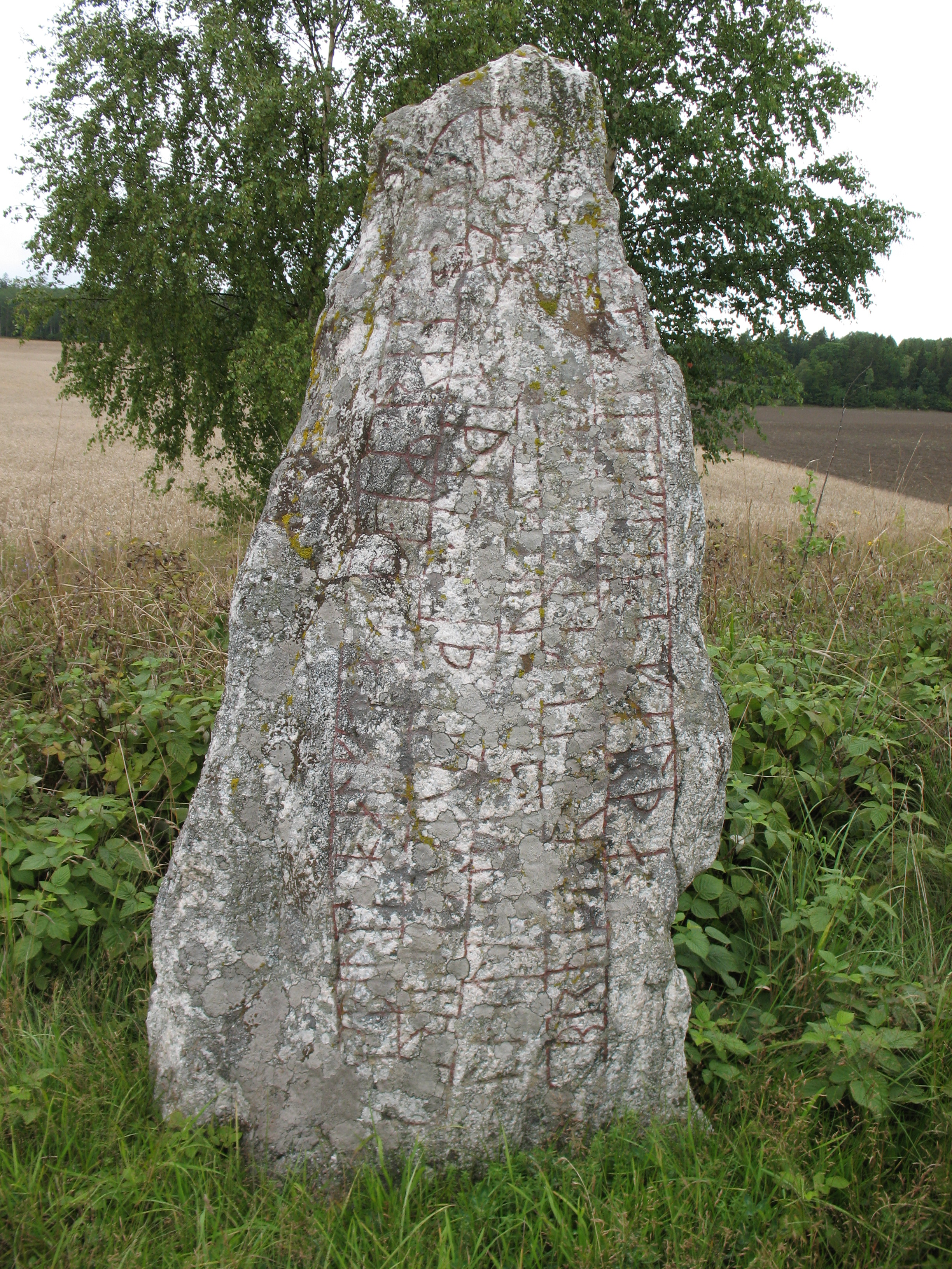 Runestone in Lid parish, Nyköping municipality, Södermanland, Sweden.